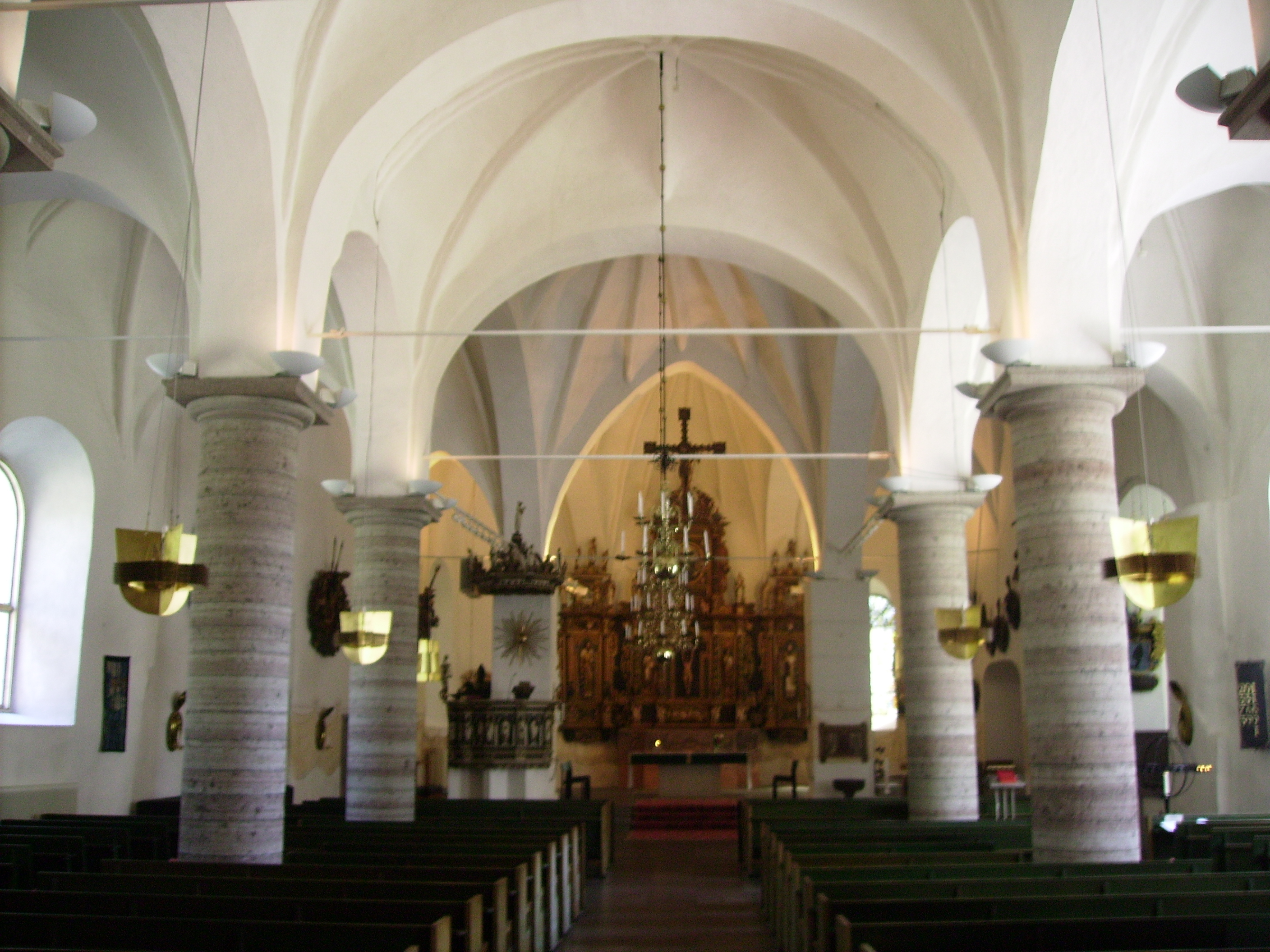 Picture of Allhelgonakyrkan in Nyköping